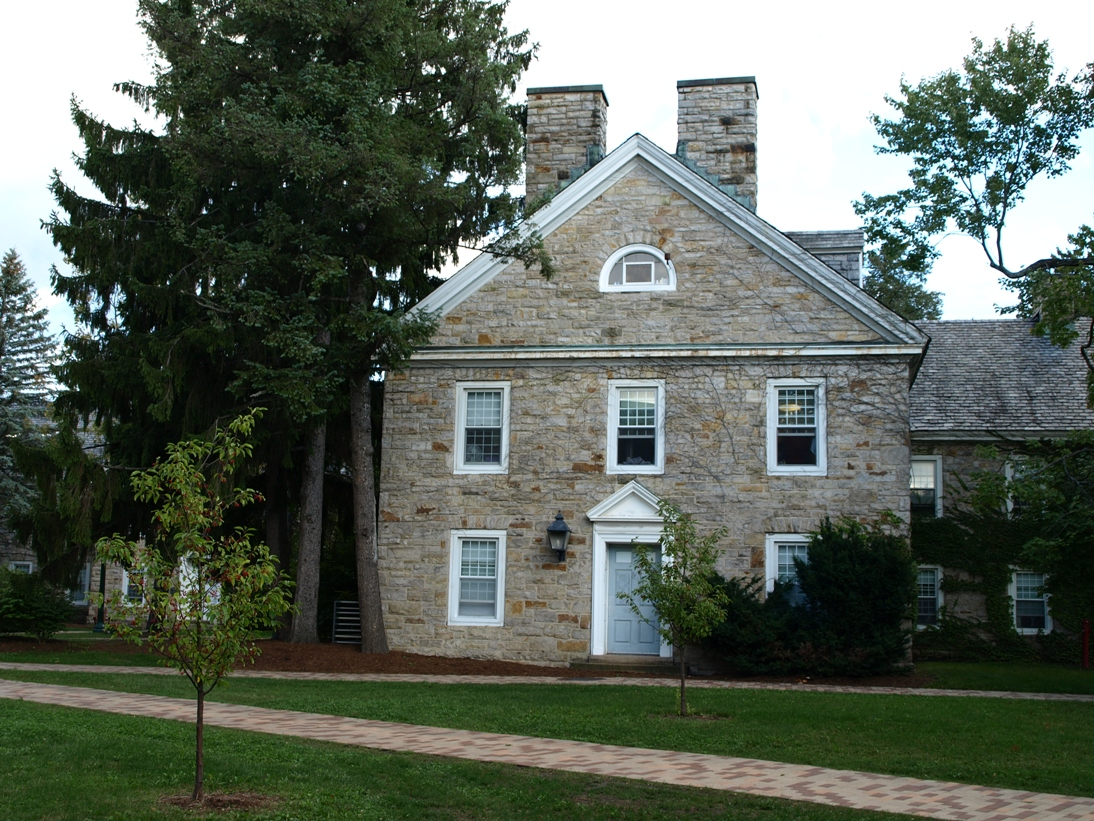 Structure at St. Lawrence University